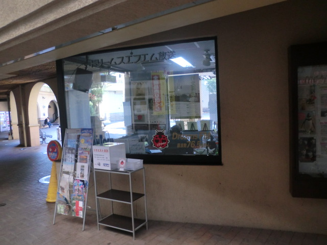 Satellite studio of Dreams FM in Kurume,Japan.